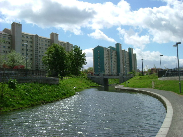 Union Canal, Wester Hailes Original description: Union Canal, Wester Hailes, Edinburgh Recently restored part of canal as part of the millennium project.